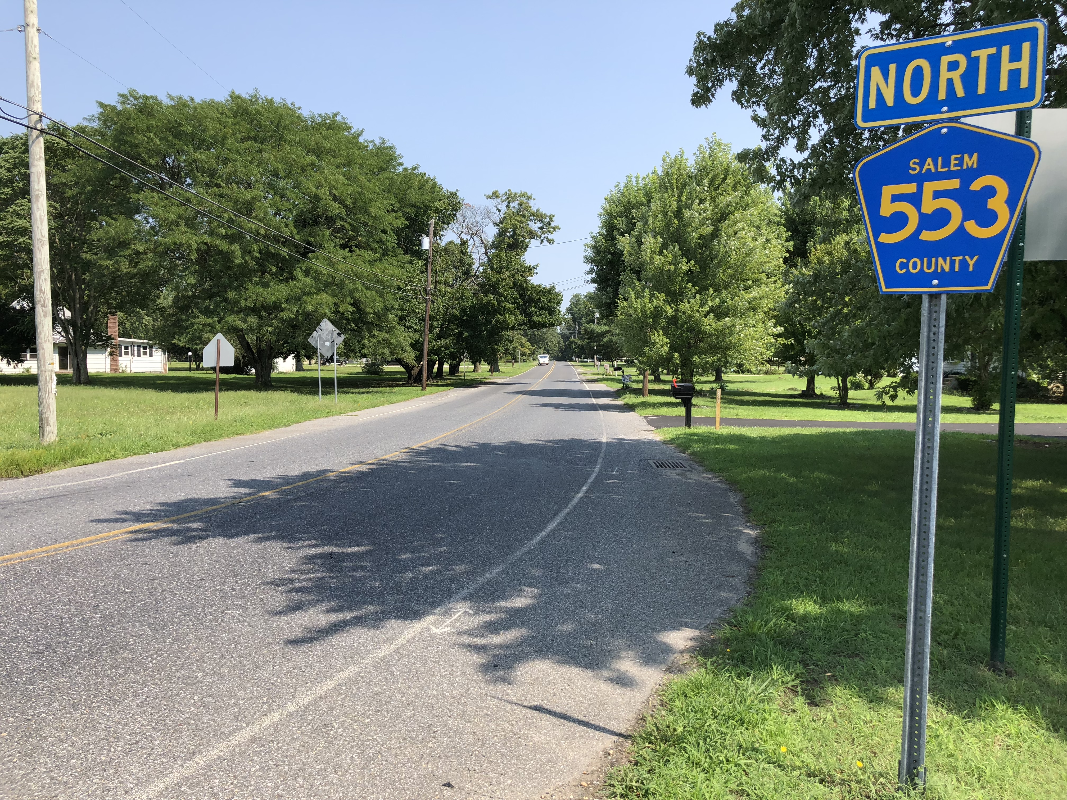 View north along Salem County Route 553 (Buck Road) just north of Salem County Route 610 (Centerton Road) in Pittsgrove Township, Salem County, New Jersey